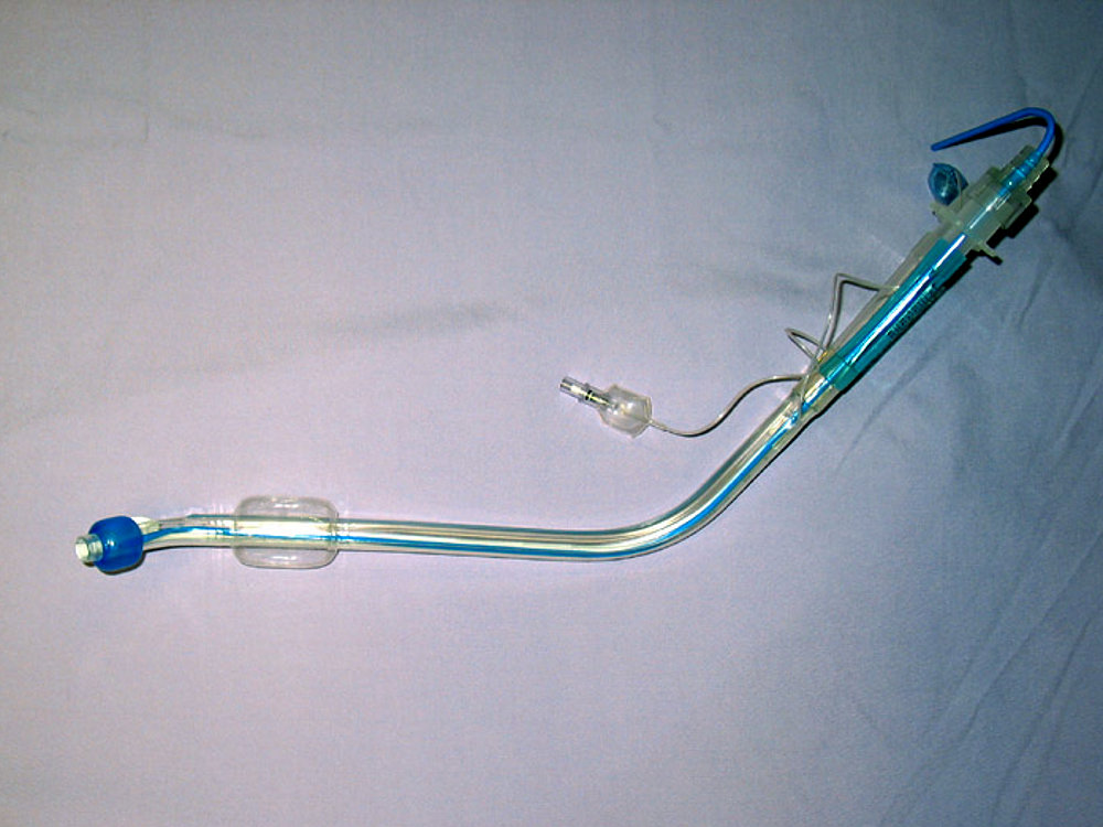 A Carlens double-lumen endotracheal tube for selective broncial intubation